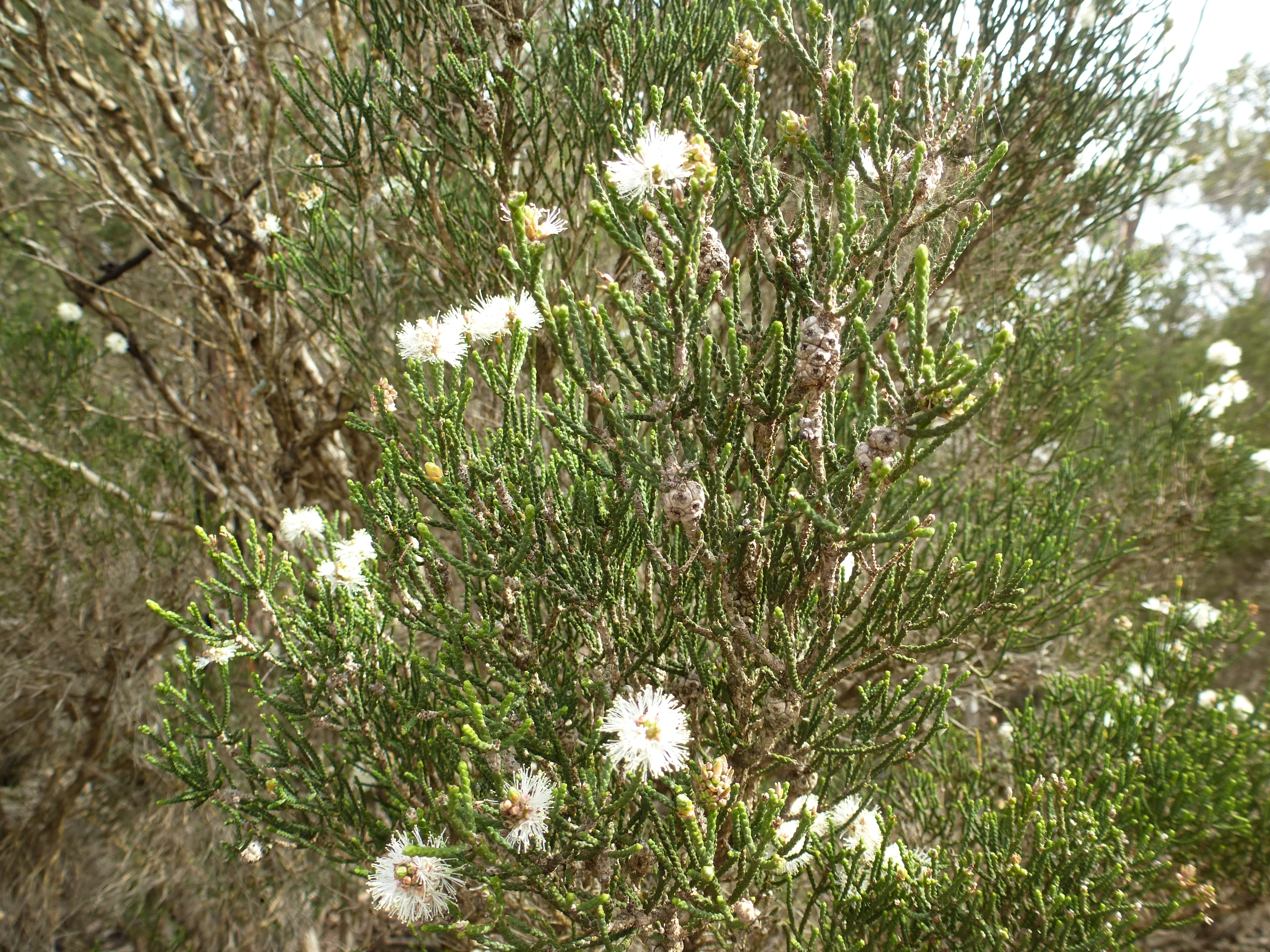 Melaleuca thyoides growing along Scaddan Road